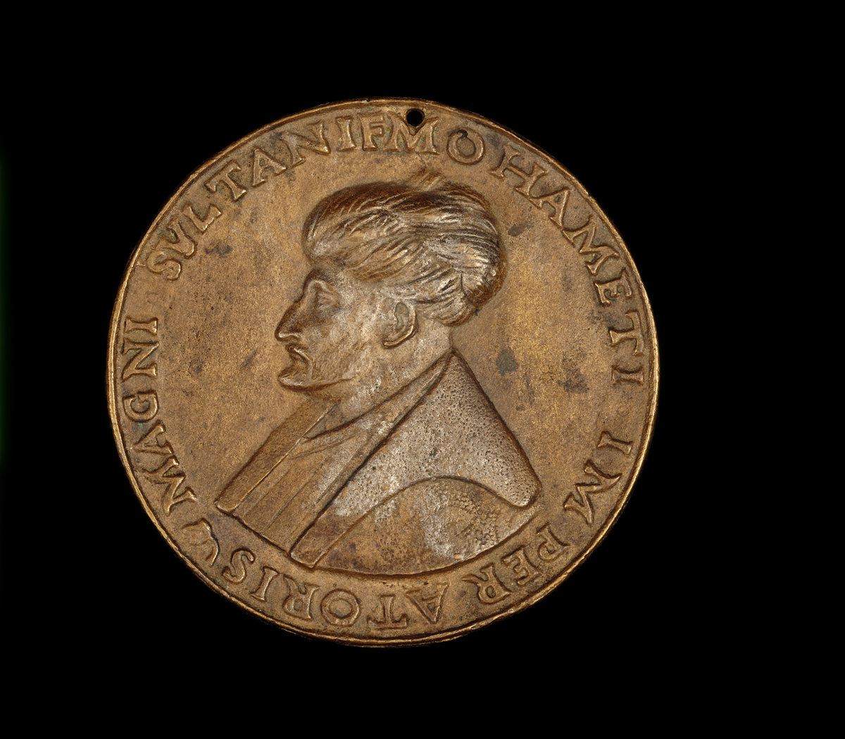 Sultan of the Ottoman Empire; Mehmed II (Mehmed the Conqueror) (1432-1481).